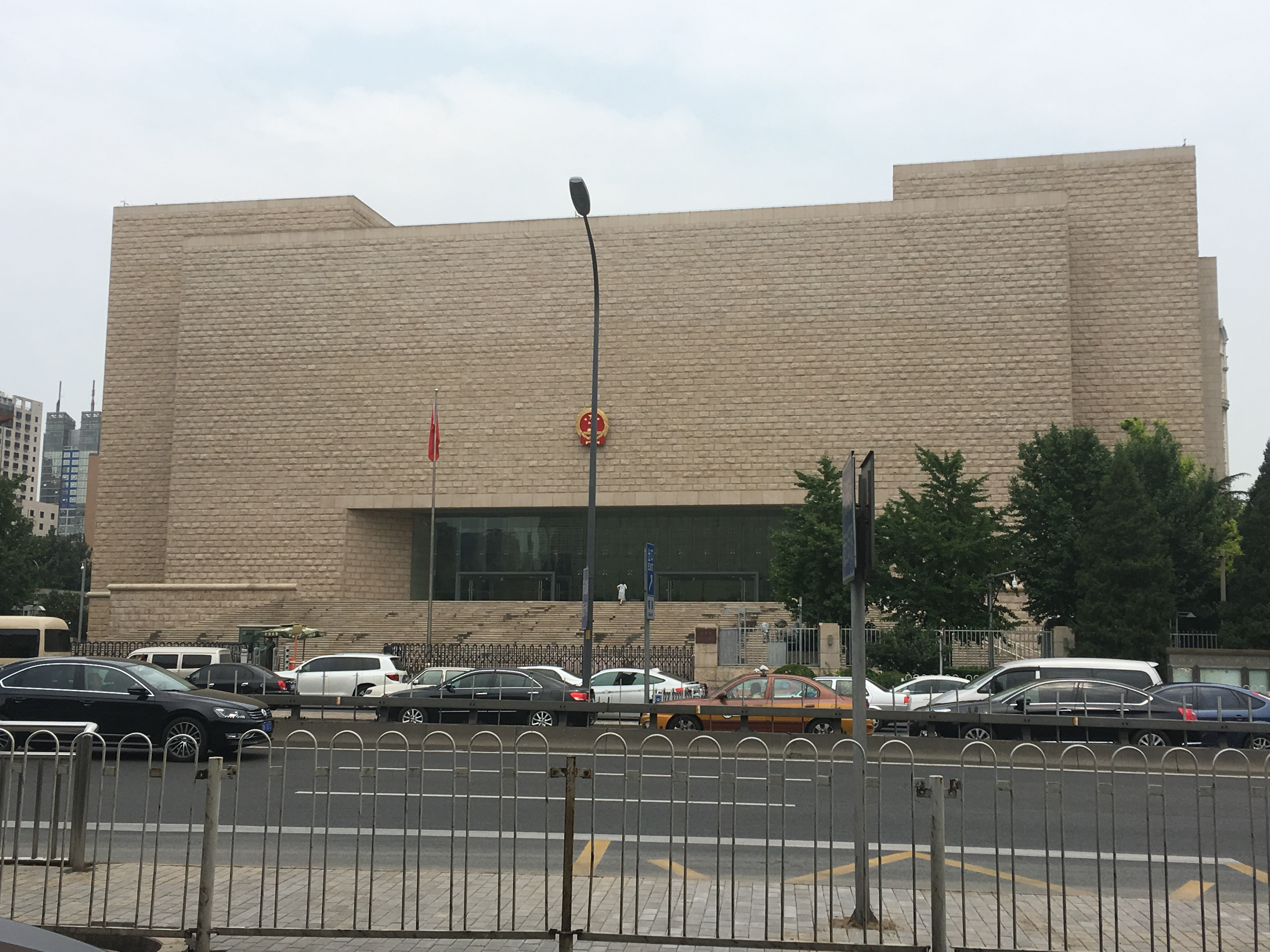 Image from the Jianguoli ward of Chaoyang District, Beijing. This is close by the East Second Ring Road.北京市高级人民法院